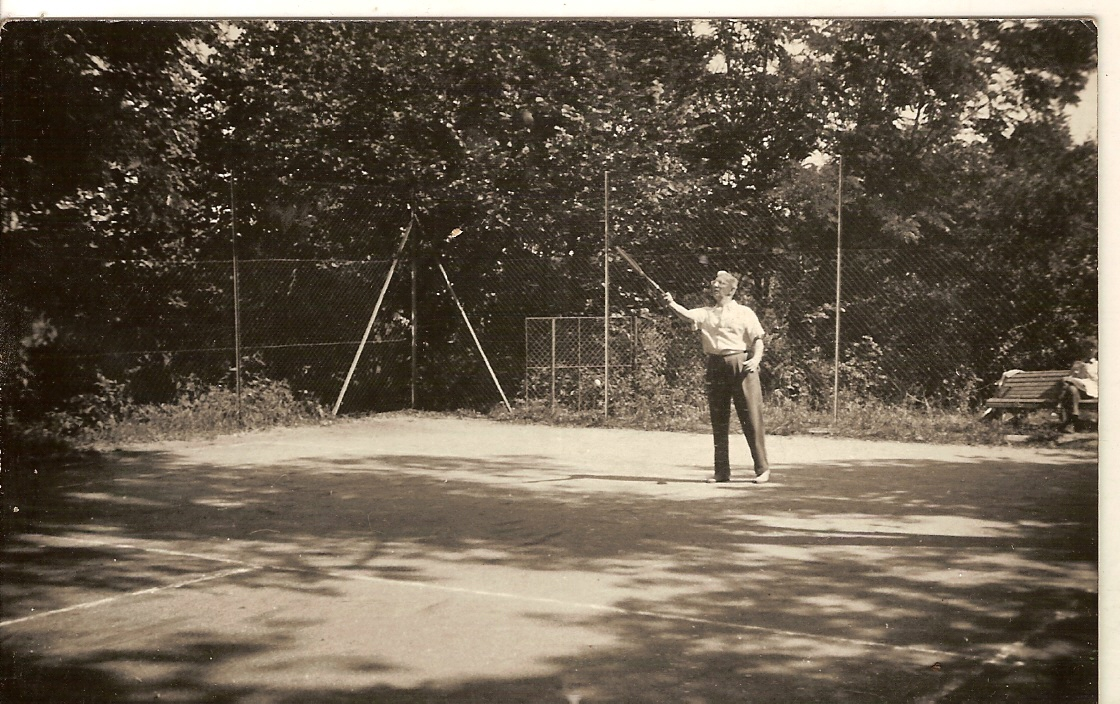 Zdeněk Hynek Bárta – Olympionic playing tennis in Františkodol – region Havlíčkův Brod